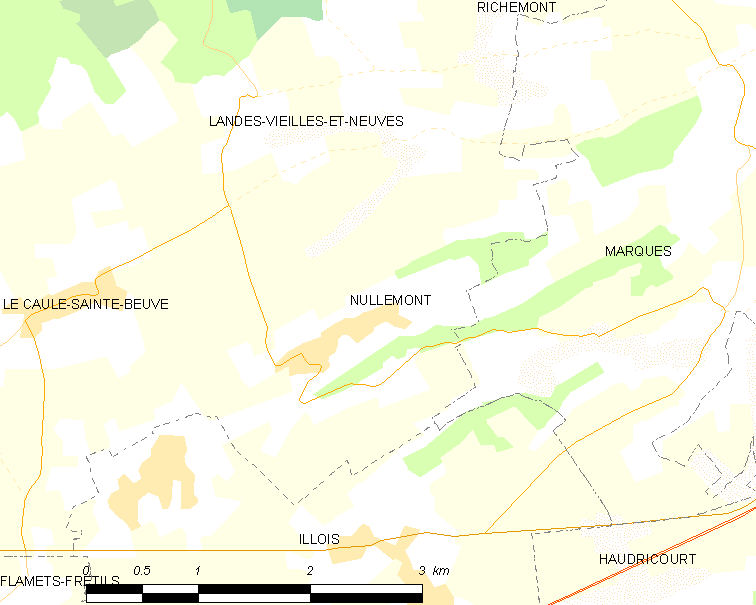 Map of French municipality Nullemont